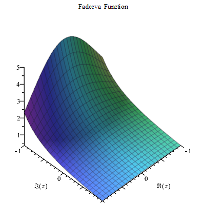 Fadeeva Function